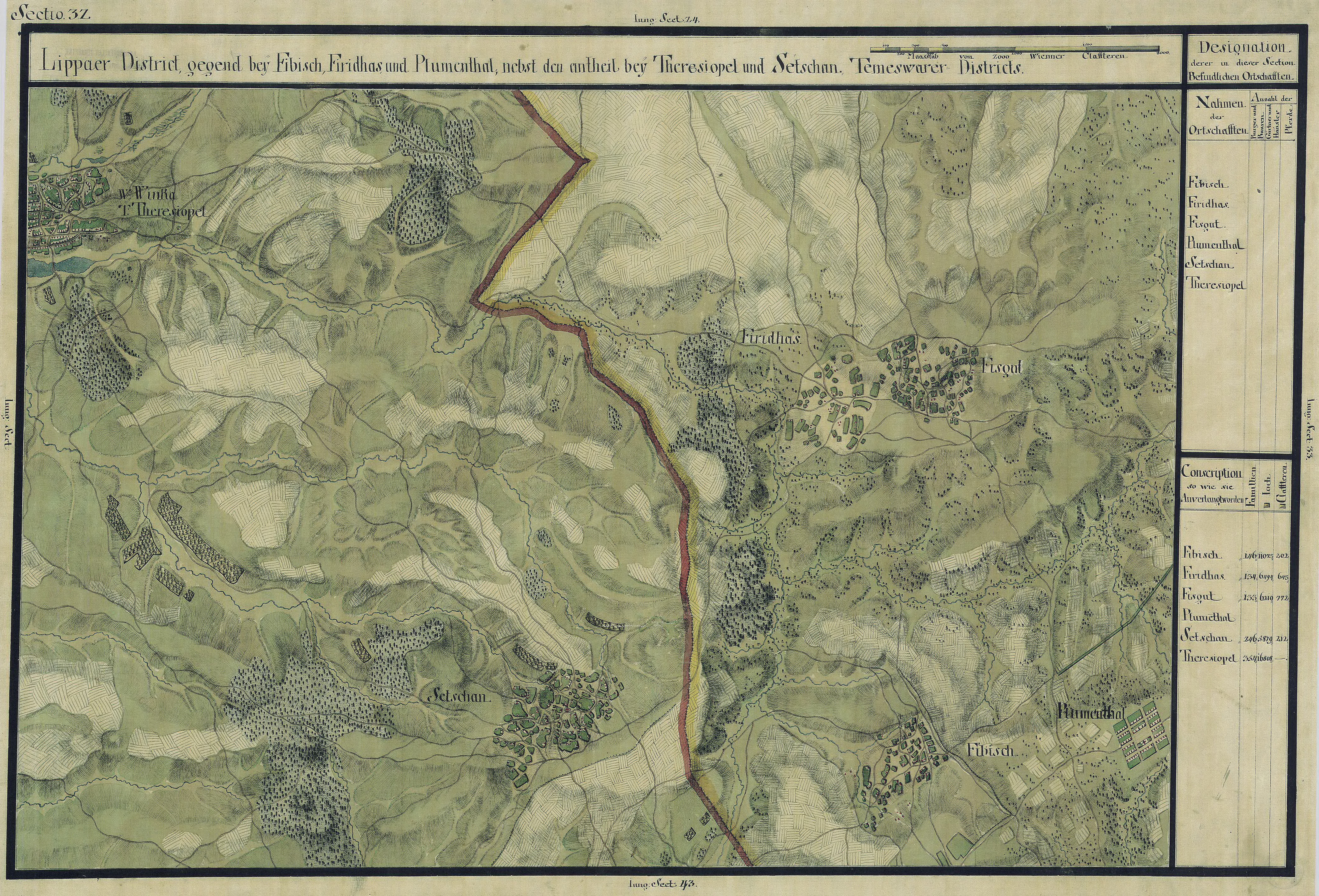 The Banat region in the cadastral maps: Josephinische Landesaufnahme, 1769-72. Josephinische Landaufnahme pg032